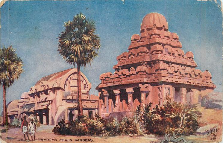 Seven Pagodas, Madras - Tucks Oilette (1911)